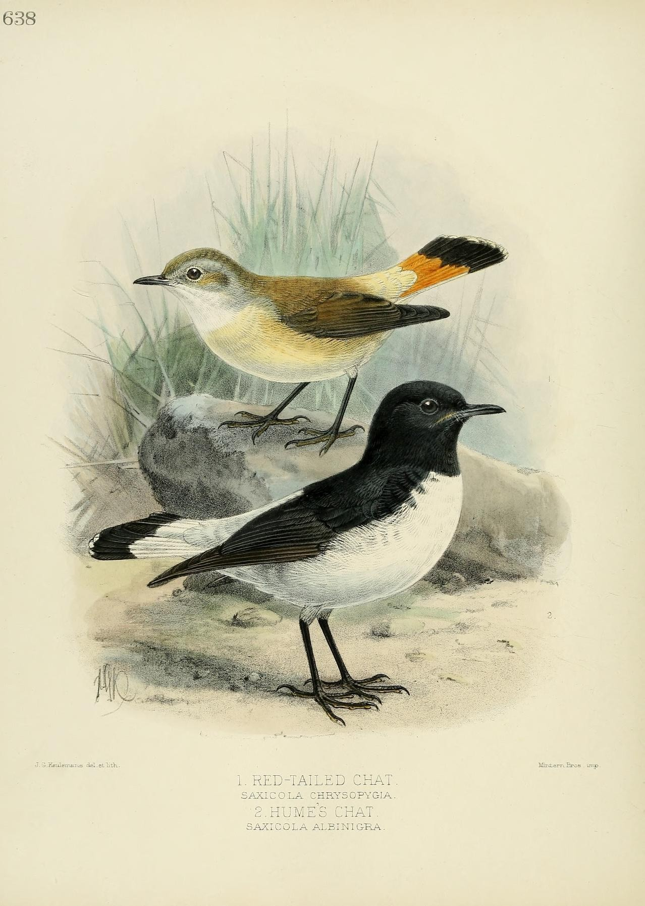 638 «j. sniaiia aU2 .c I . 1. RED-TAILED CHAT SAXICOLA CHRYSOPYGIA. 2. HUMES CHAT. SAXICOLA ALBIN1GRA. ISriter-rLSros .